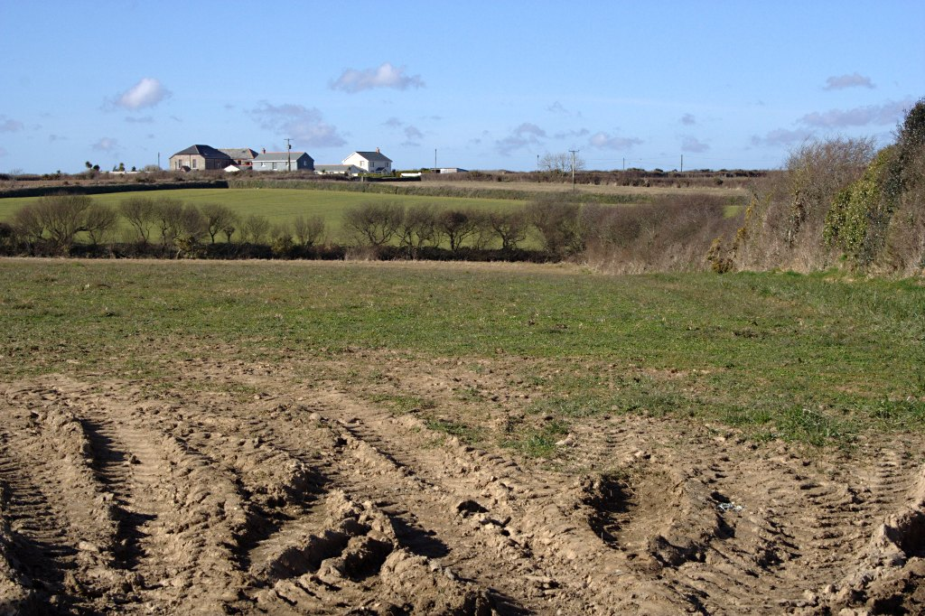 Looking across Farmland to Trewartha Rather flat farmland contrasts srongly with the spectacular coastal scenery nearby.